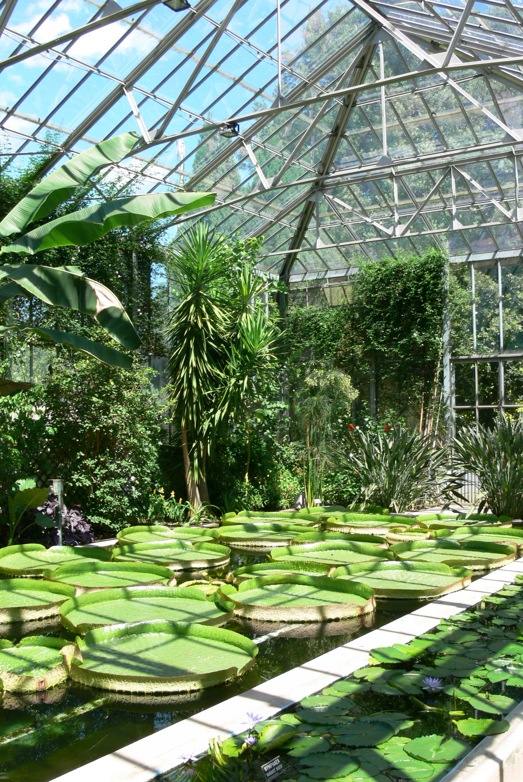 Villa Taranto ( Verbania-Pallanza ). Greenhouse with Victoria cruziana.